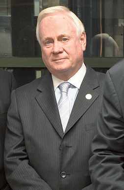 The completion of the work to rehabilitate seven stations along the West End D Line in Brooklyn was marked on August 2, 2012, with a ribbon-cutting ceremony at the Bay Parkway Station attended by MTA leaders and local elected officials. This seven station, $88 million stimulus project funded by the American Recovery and Reinvestment Act (ARRA) of 2009 brought station elements at the elevated stations and segments of the elevated structure south of 62nd Street into a state of good repair. Work included the transformation of the Bay Parkway Station into an ADA key station providing full vertical accessibility for the disabled through the installation of three elevators. Photo: Metropolitan Transportation Authority / Patrick Cashin.